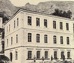 Greek School of Melnik, circa 1850-1912